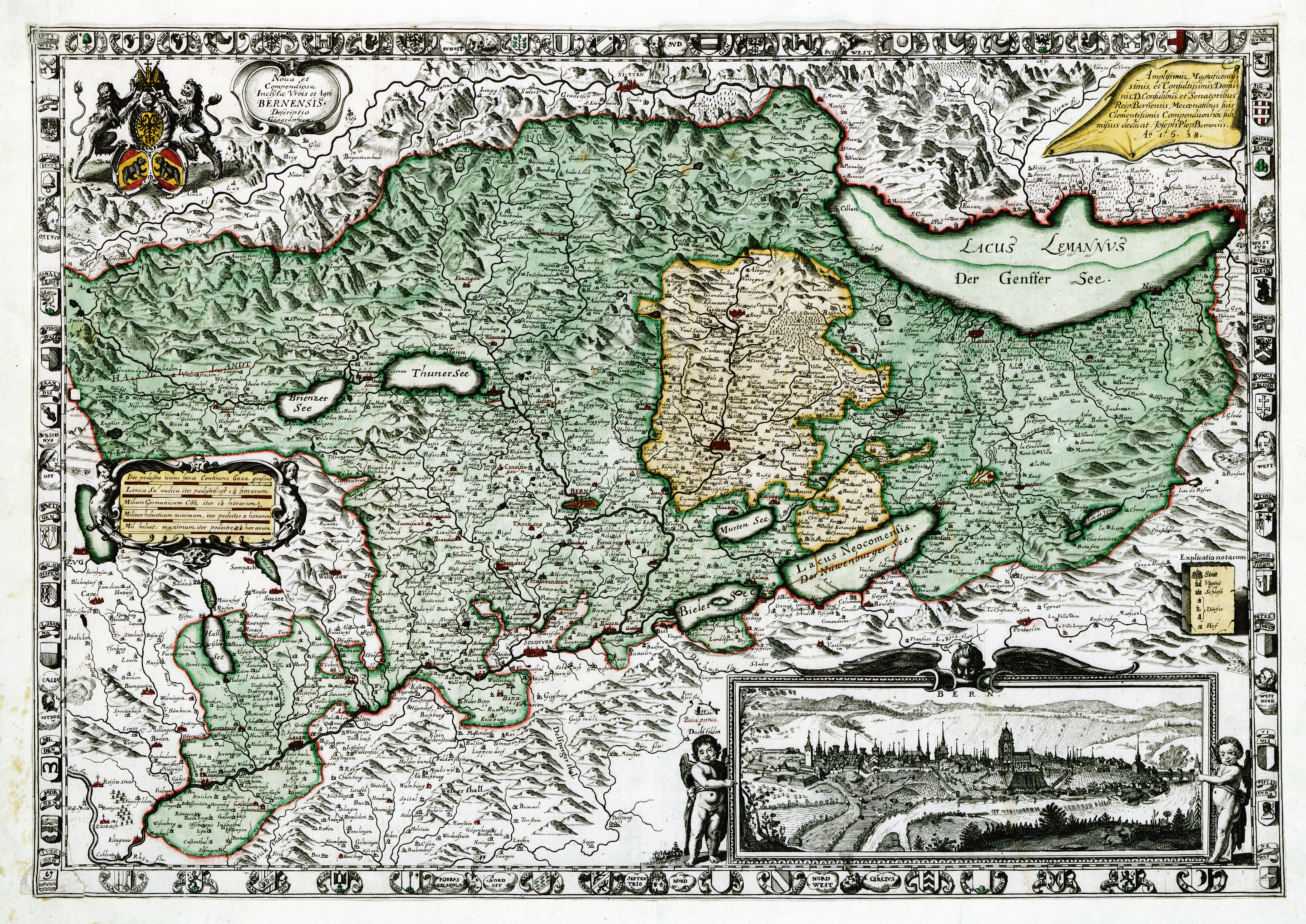 The City-state of Berne, Switzerland 1638